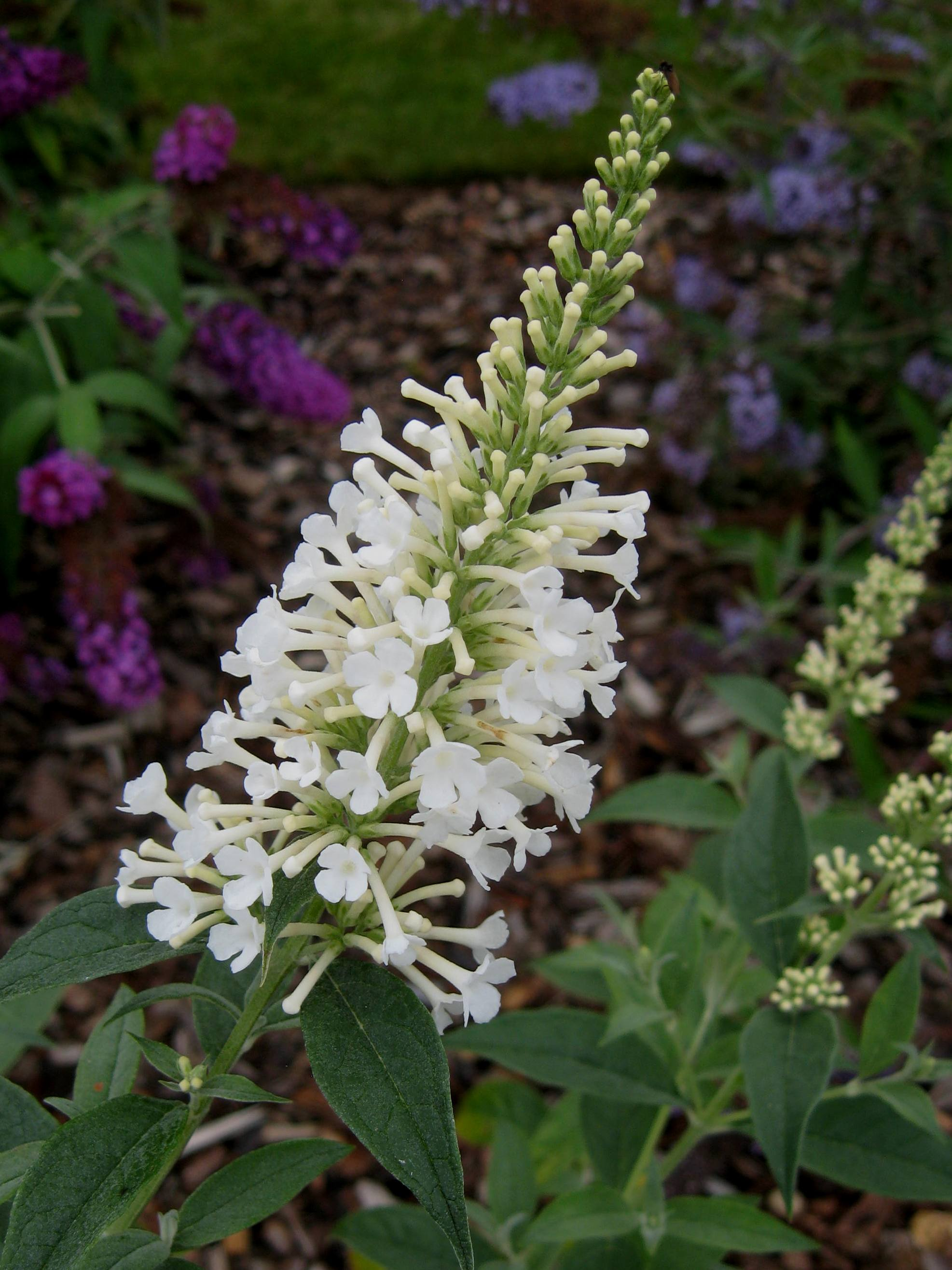 Photo taken at Longstock Park, UK, August 2012.